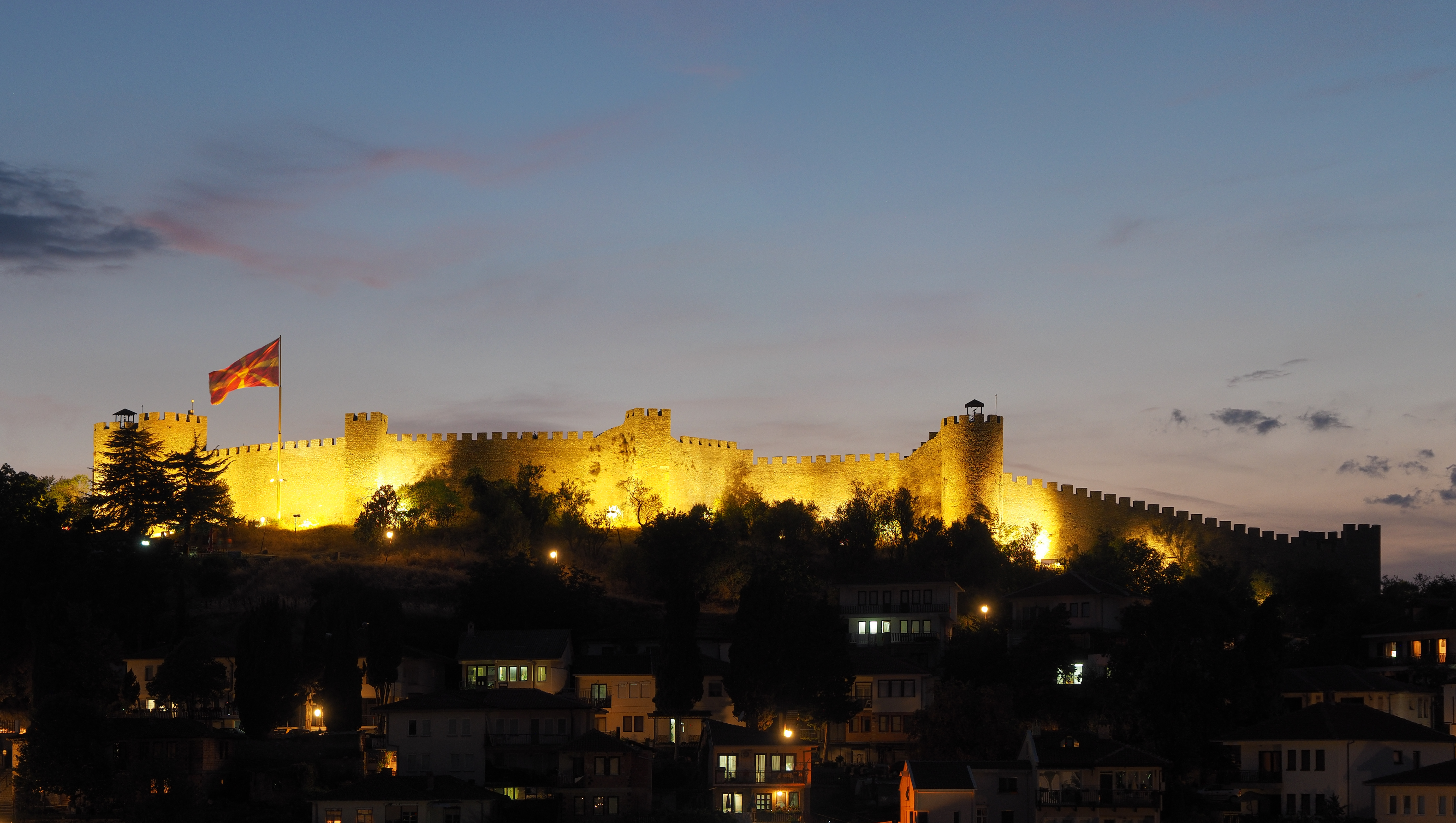 Samuil's Fortress in Ohrid, Republic of Macedonia This photograph was taken with an Olympus E-M1